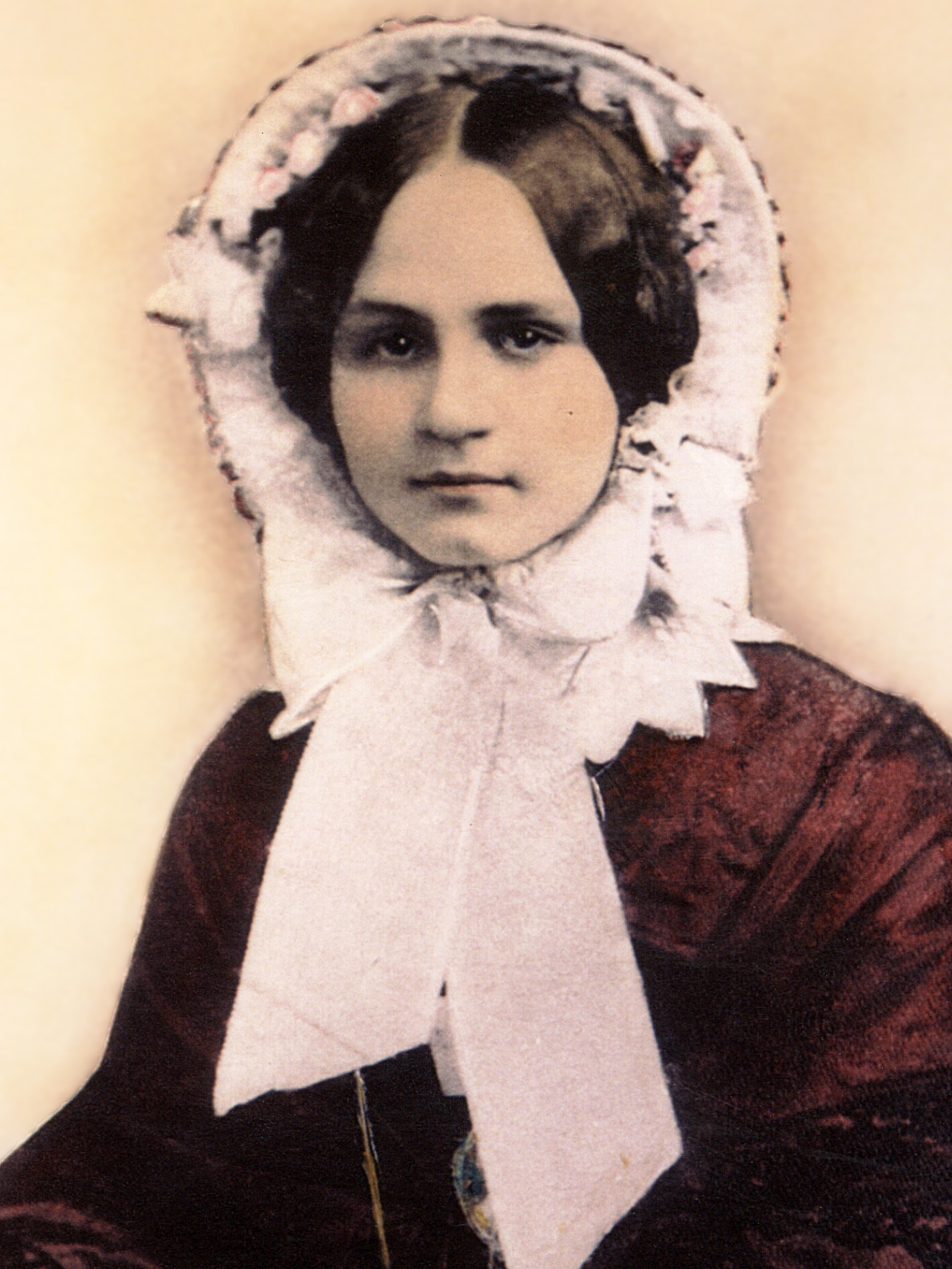 Margaret Lea Houston circa 1839